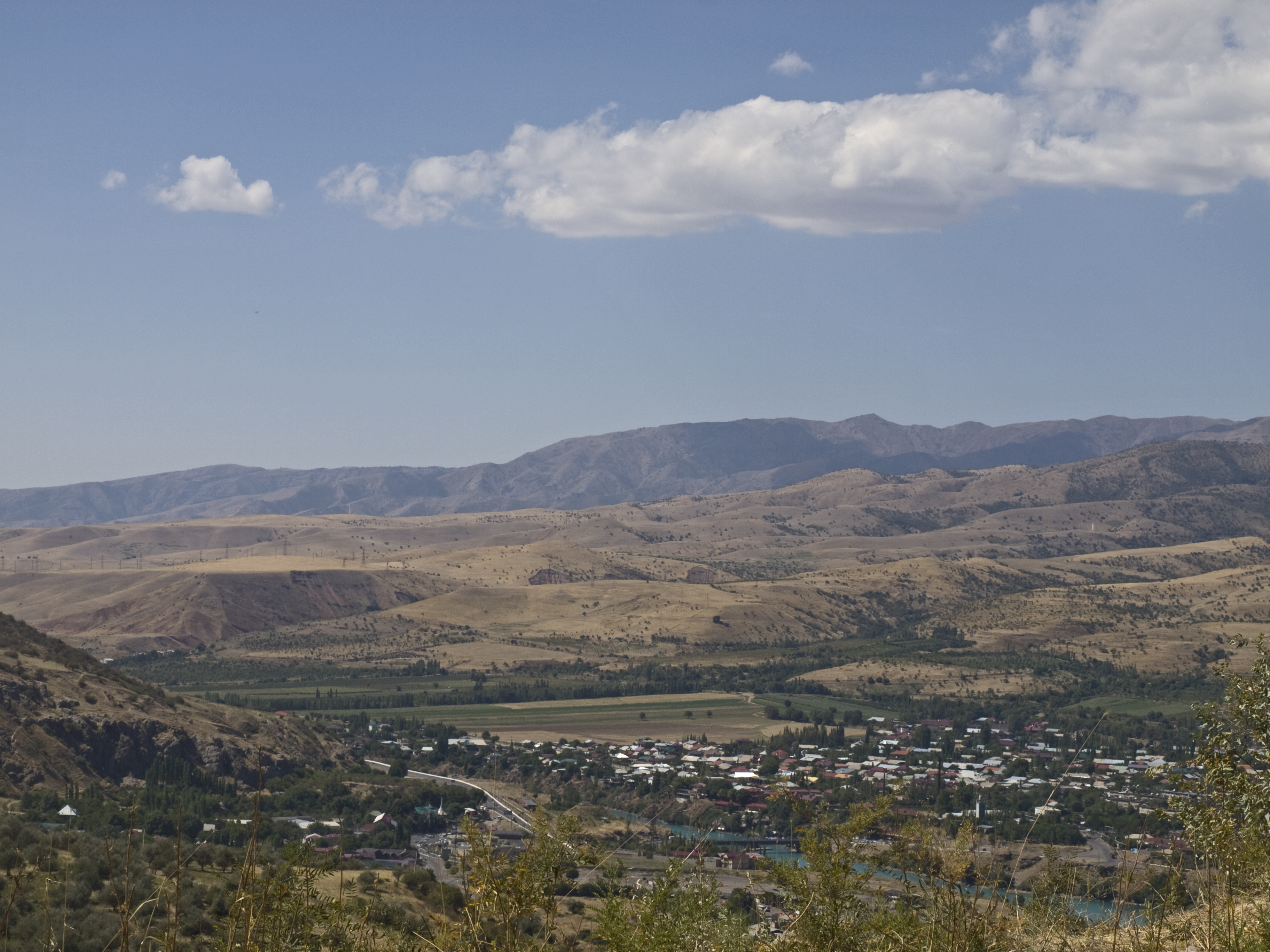 Ugam Range and the settlement of Chorvoq